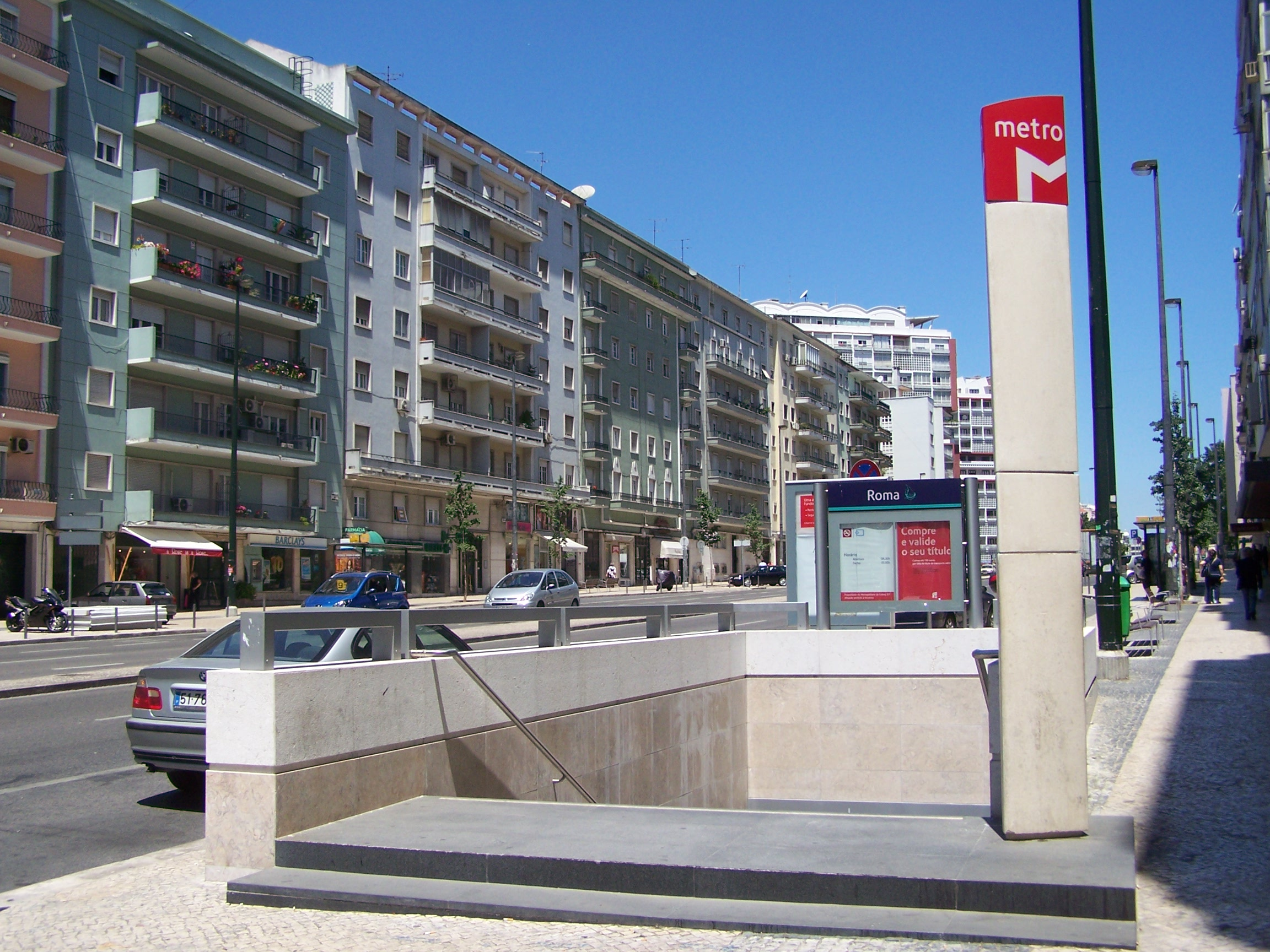 entrance to Lisbon's undergroudn station Roma, green line